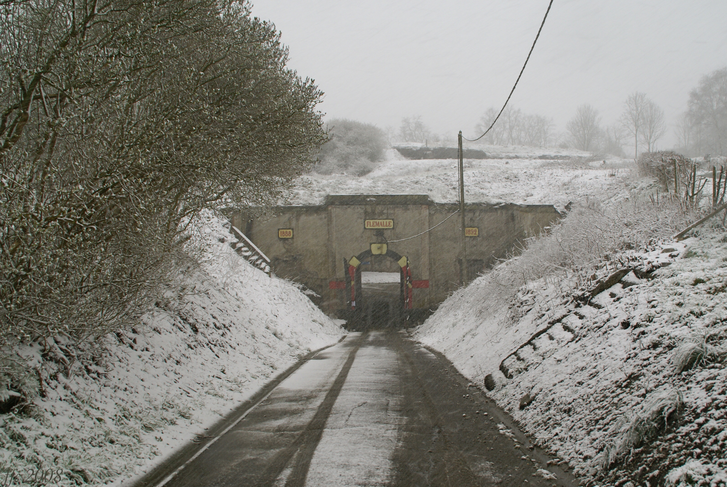 Flémalle (Belgium) Entry to the Fort Entrada de la fortificació Entrée du fort ingang van het fort